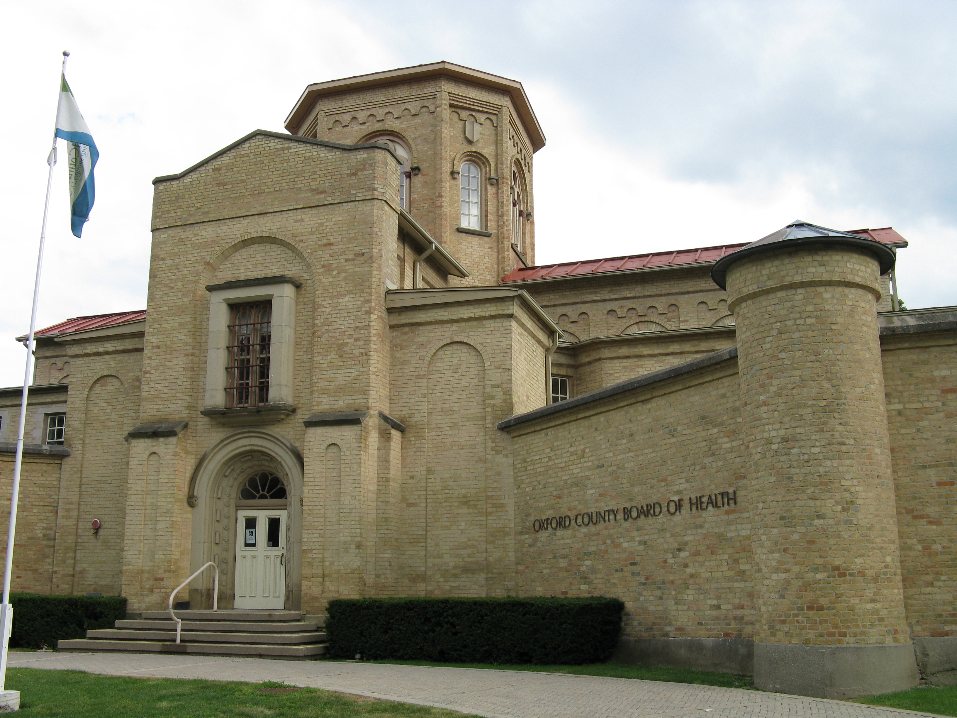 Oxford County Board of Health in Woodstock, Ontario.